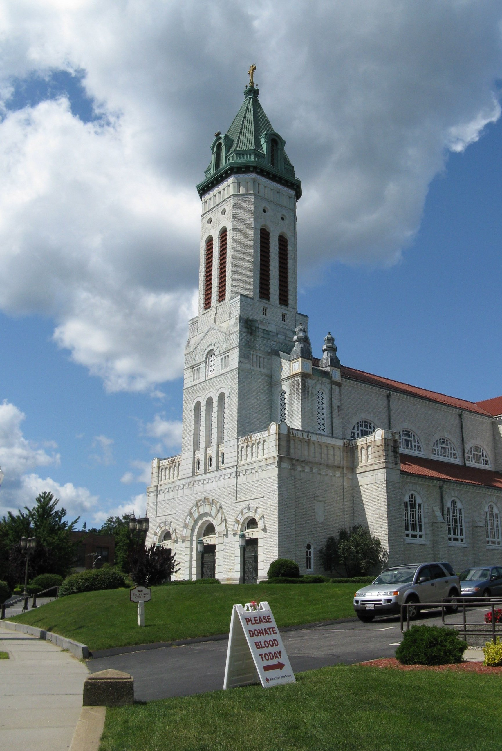 Notre Dame of the Sacred Heart Parish, Southbridge Massachusetts